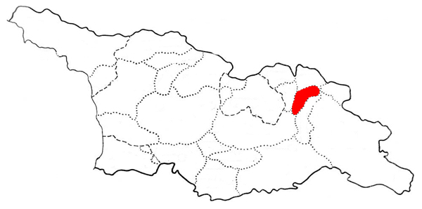 Pshavi.